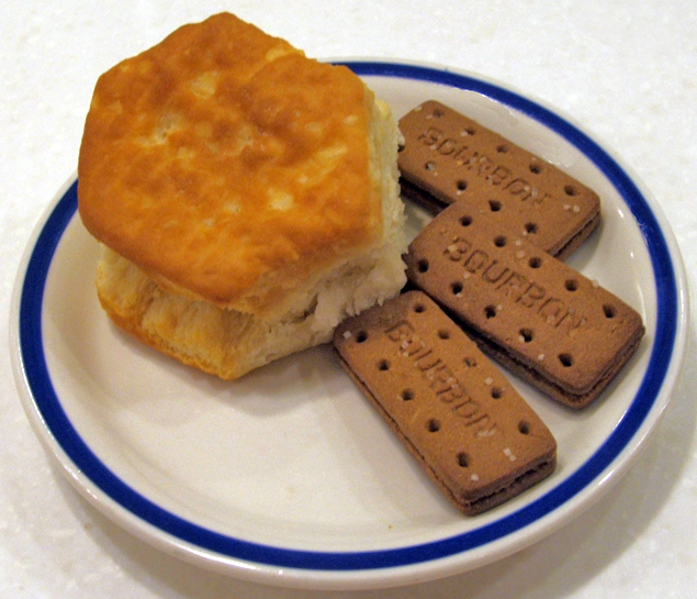 American biscuit (left) from Bob Evans Restaurant (Unit 141, Pittsburgh, PA) and British biscuits (right) from a packet of Britannia "Bourbon" biscuits (India), showing the difference between the American English and British English meaning of "biscuit."